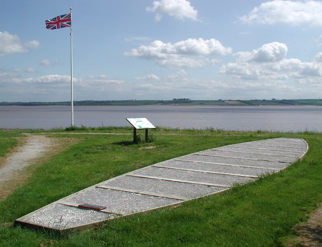 The Ferriby Boats, North Ferriby, East Riding of Yorkshire, England.A plaque on this boat-shaped memorial on the Humber bank near North Ferriby reads: "This memorial to Ted Wright 1918-2001 depicts the outline of the oldest known boat in Europe built and sailed from this foreshore 4000 years ago". Ted Wright and his brother Bill discovered the first of the Bronze Age boats in 1937 and Ted found another about 60 yards upstream on leaving the army in 1940. In 1963 further excavations uncovered part of a third boat next to the first. The boats are generally referred to as Ferriby 1, 2 and 3 and their remains are now housed in the National Maritime Museum at Greenwich. Presumably the memorial in the picture is designed to show the size of one of the boats but to me it is too much like other installations showing the exact location of the discovery, which is misleading as the boats were dug up from the estuary mud. The notice board next to the memorial refers to a boat plank from Caldicott, Gwent being some 300 years older than the Ferriby boats but the information is out of date. In March 2001 information was released which dated the Gwent boat at 1880-1690 BC, Ferriby 1 at 1880-1680 BC, Ferriby 2 at 1940-1720 BC and Ferriby 3 at 2030-1780 BC. Ted Wright, MBE, amateur archaeologist and Fellow of the Royal Society of Antiquaries who discovered the Ferriby boats was born on June 21, 1918. He died on May 18 2001 aged 83.